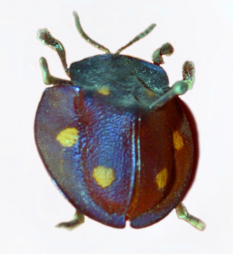 Cyrtonota sexpustulata. Mounted specimen on display at the Museo Civico di Storia Naturale di Milano